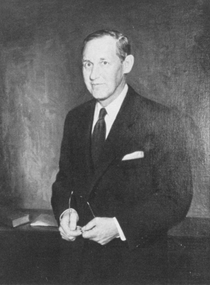 Credit: National Oceanic and Atmospheric Administration/Department of Commerce [1] Harry Lloyd Hopkins, Secretary of Commerce